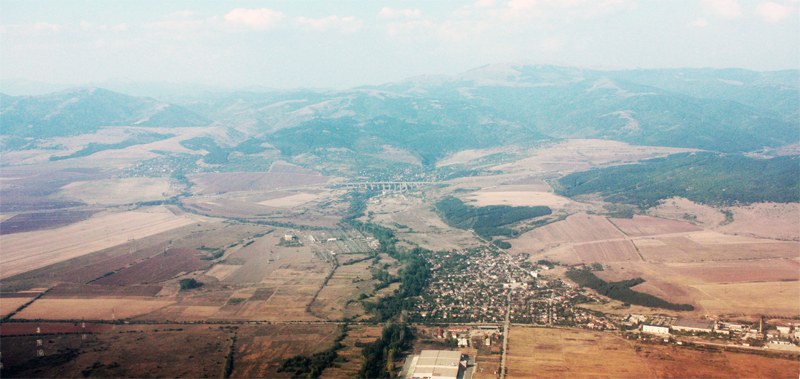 Smog over Pazardzhik plain to Sredna gora mountains after traditional harmful practice of autumn burning of stubbles.